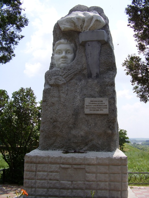 Ust'-Labinsk. "The communal grave of 370 peace inhabitants and pioneer - hero M.Pinkenzon, killed by fascist invaders. 1942 ".